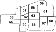 Southwest side of Chicago, adapted from the Community areas of Chicago map. Created in Macromedia Flash 4. PNG-8 Index transparency.